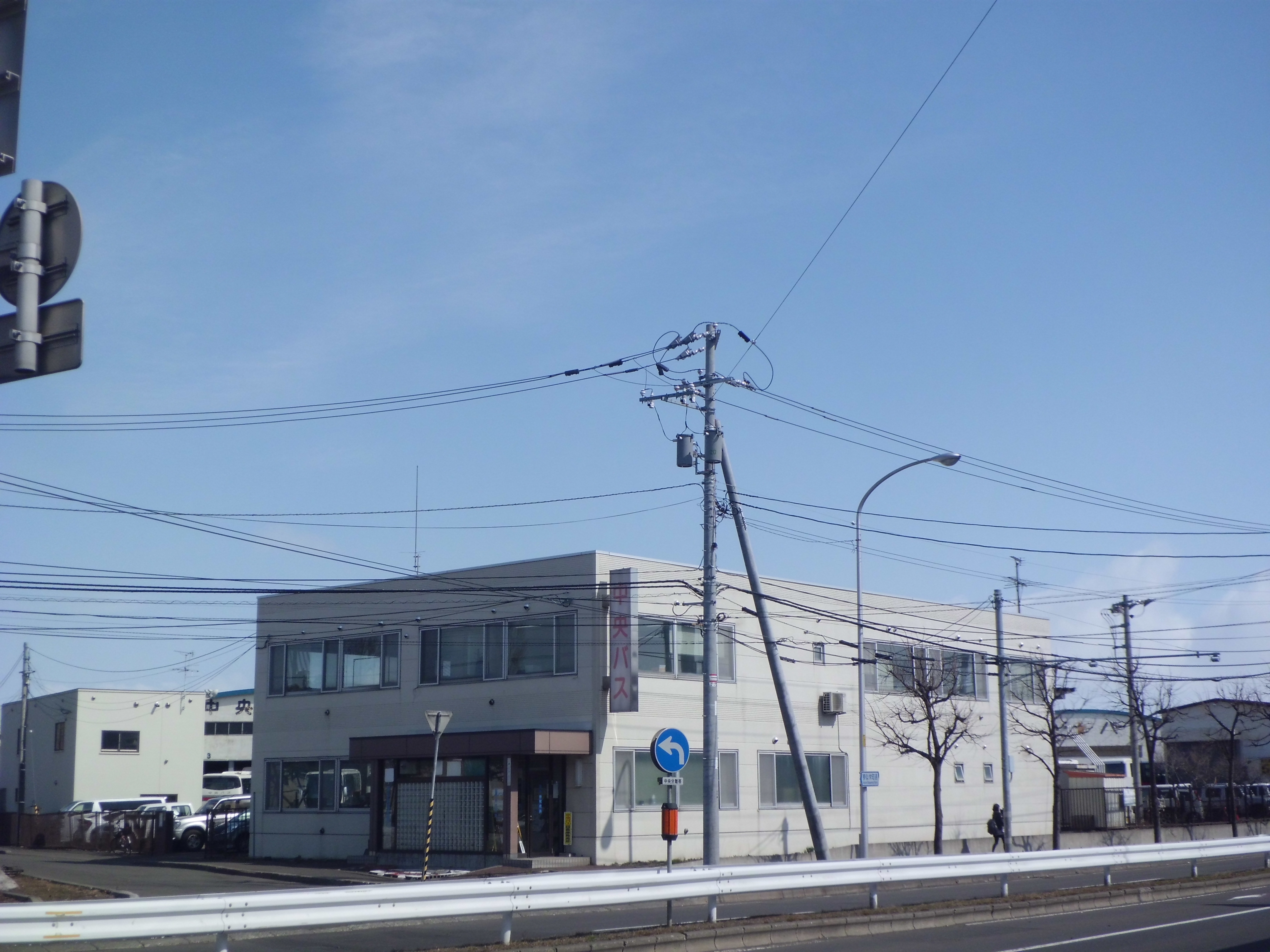 Hokkaido Chuo Bus Sapporo Kita Office